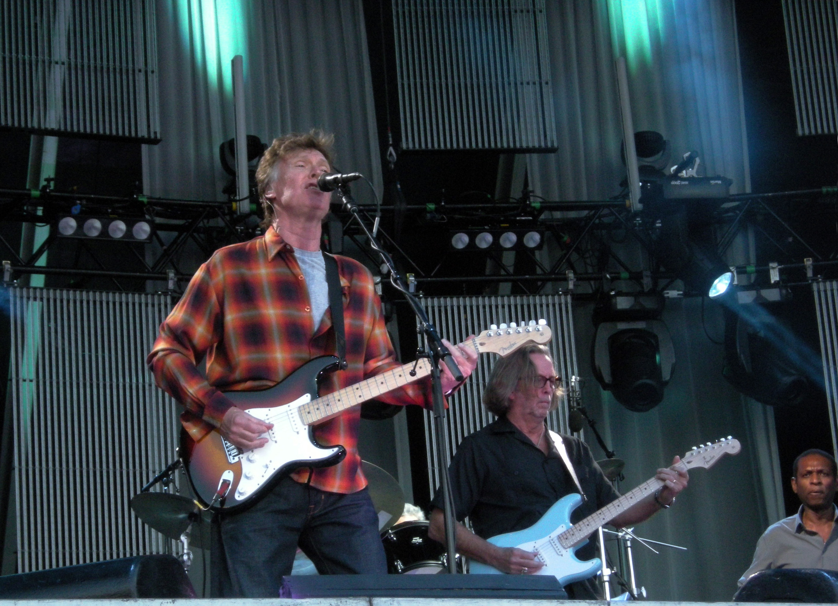 Steve Winwood n Munich, 2010, with Eric Clapton